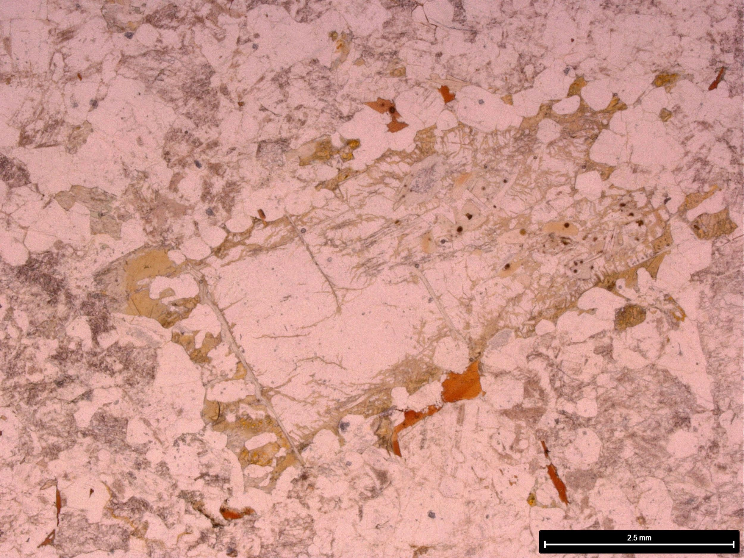 Plane Polarize Photomicrograph of Cordierite from the Strathbogie Granite (CV142), Australia.